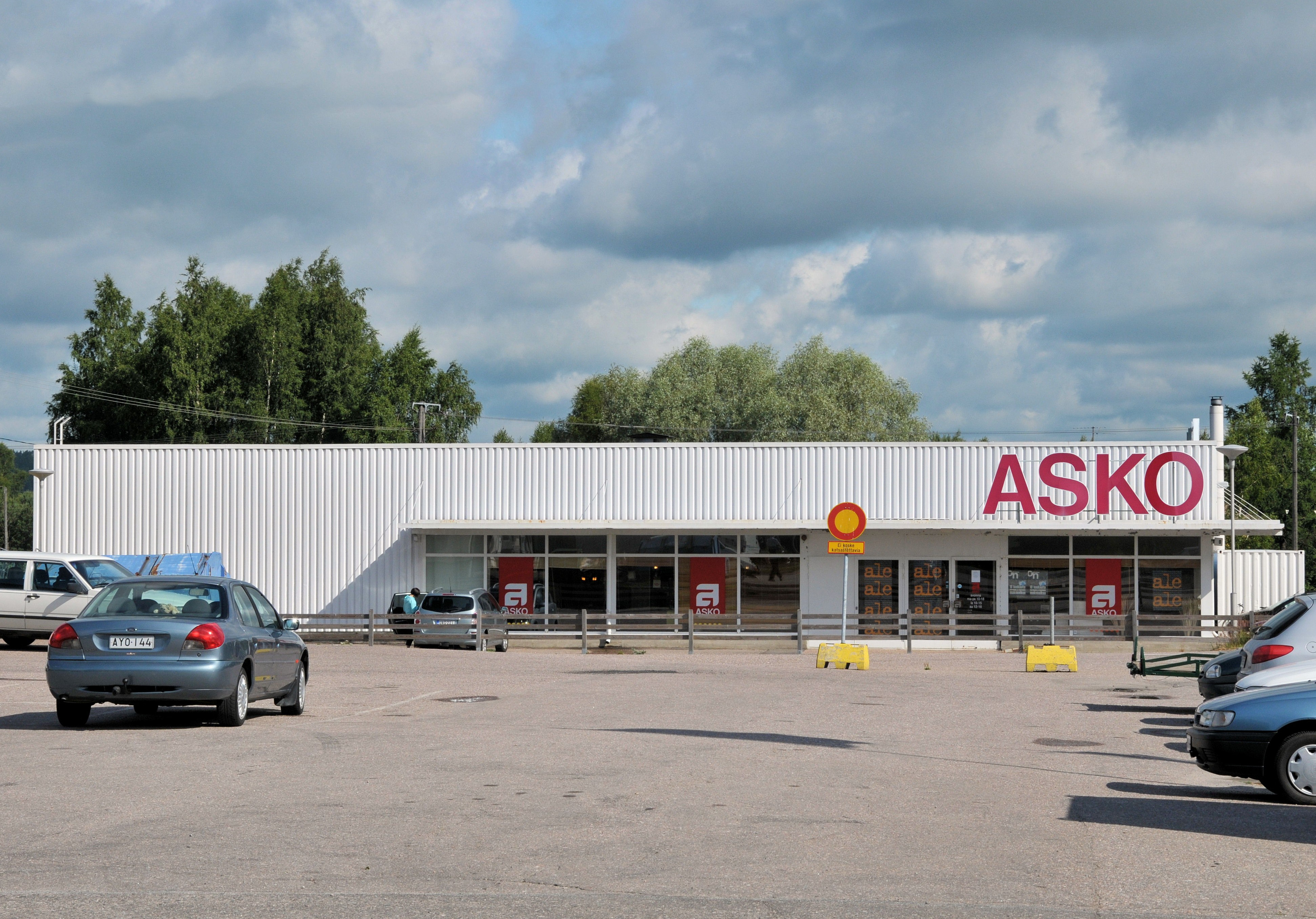 Helsingintie 70 in Salo